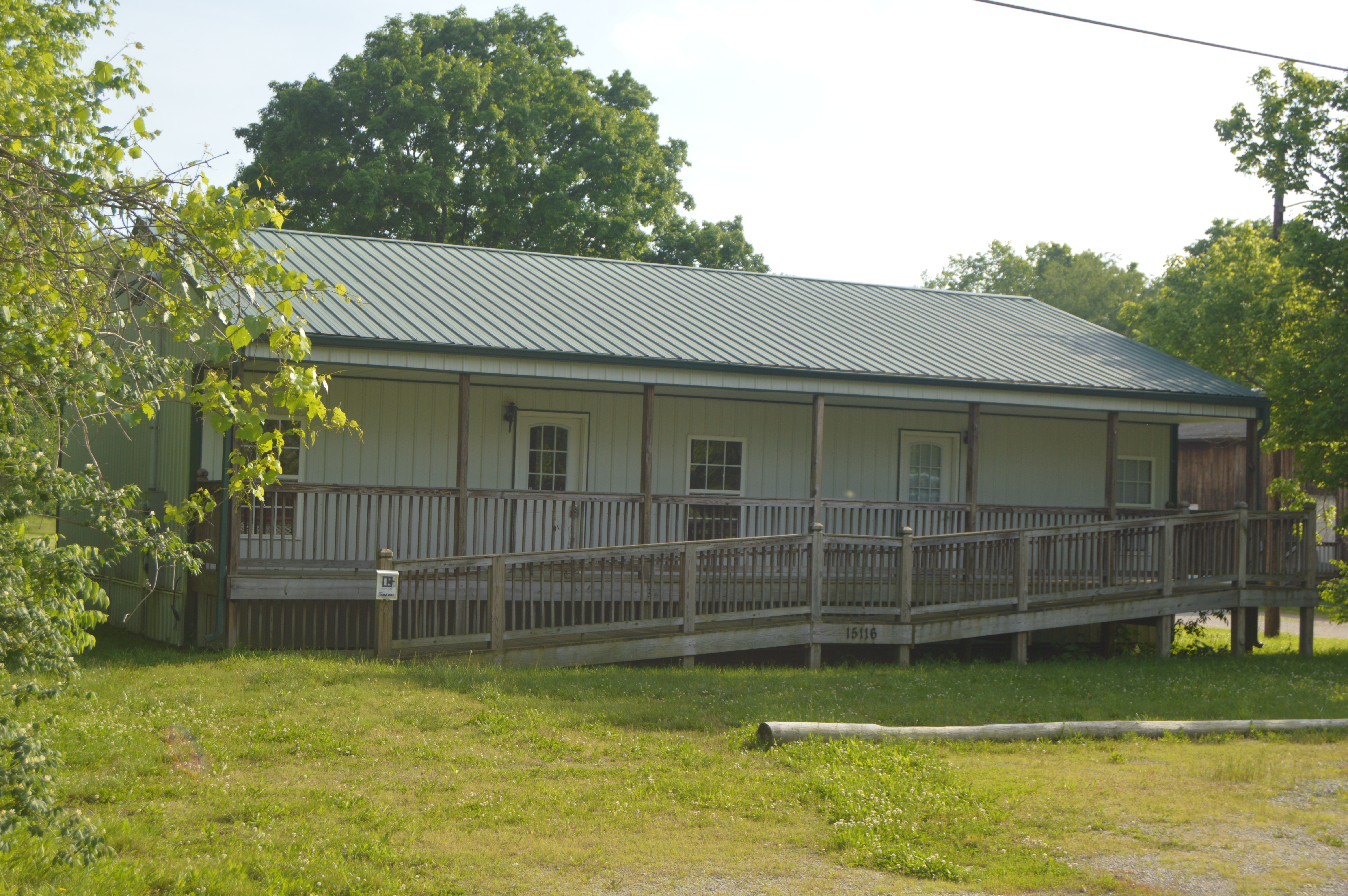 Front of the building located at 15116 Old Taylorsville Road in Louisville, Kentucky, United States. It occupies the site of the old Masonic Hall, which was listed on the National Register of Historic Places in 1983; although destroyed, it has not yet been undesignated.